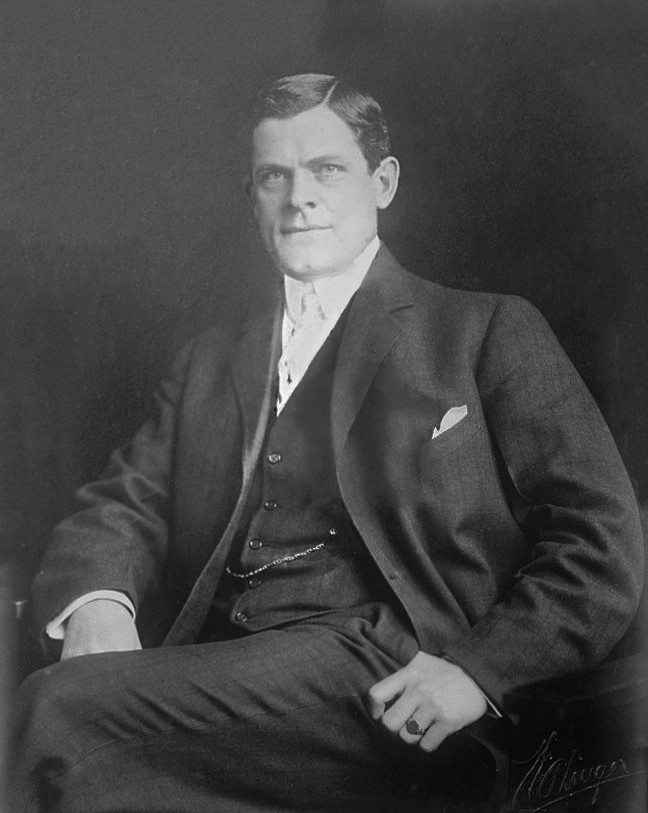 Bain News Service,, publisher. Thomas E. Wilson [between ca. 1910 and ca. 1915] 1 negative : glass ; 5 x 7 in. or smaller. Notes: Title from unverified data provided by the Bain News Service on the negatives or caption cards. Forms part of: George Grantham Bain Collection (Library of Congress). Format: Glass negatives. Repository: Library of Congress, Prints and Photographs Division, Washington, D.C. 20540 USA, General information about the Bain Collection is available at Persistent URL: Call Number: LC-B2- 2916-5